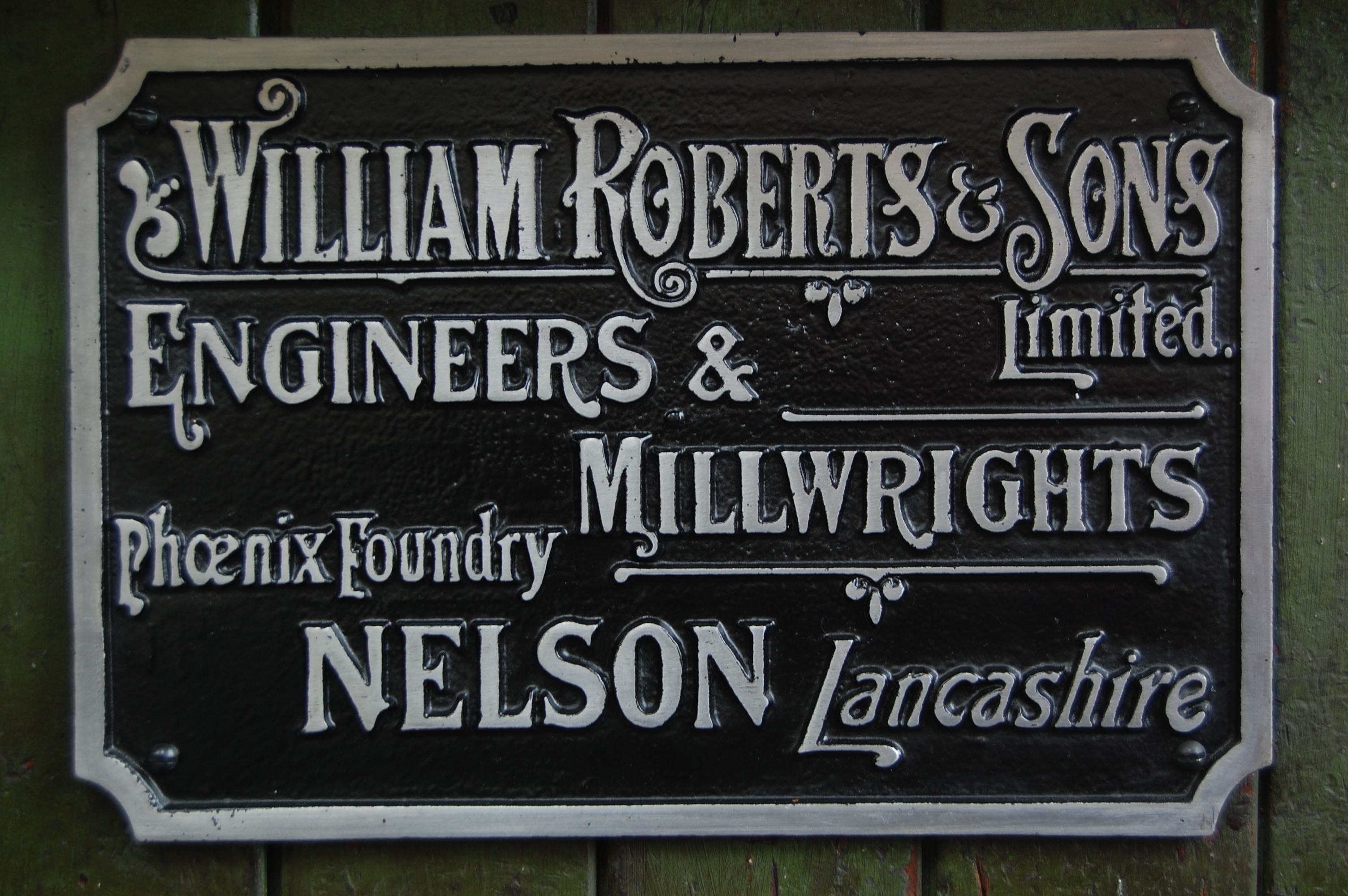 William Roberts & Sons of Nelson, engine makers' plate, on the engine 'Peace', at Queen Street Mill, Burnley, England.